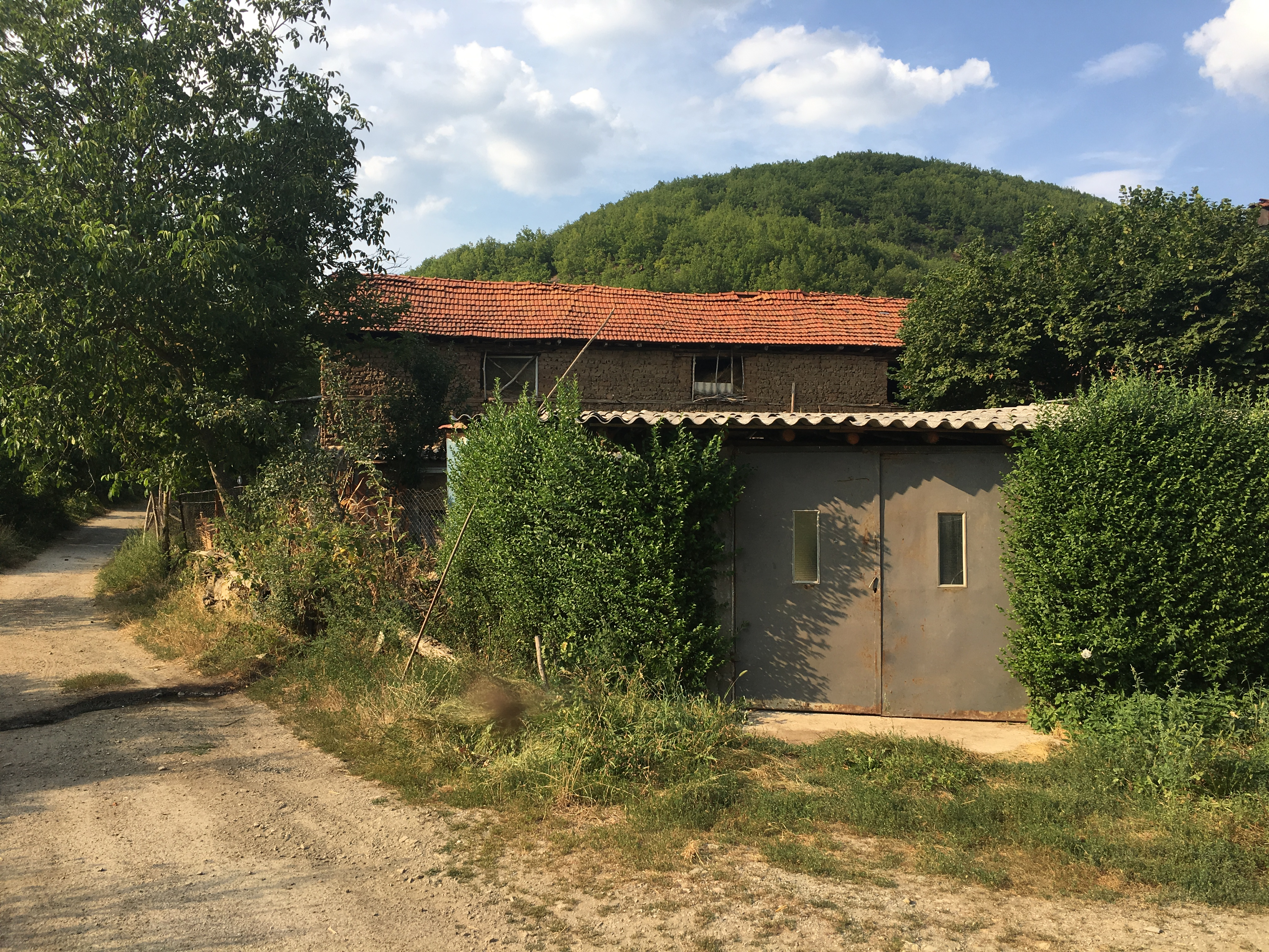 Houses in the village of Rasino